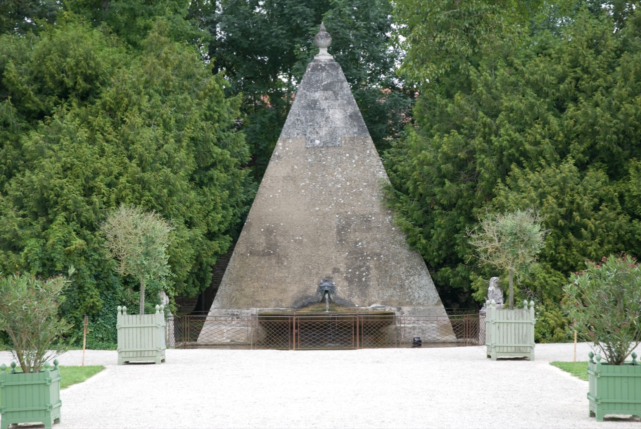 Château d'Ancy-le-Franc, garden